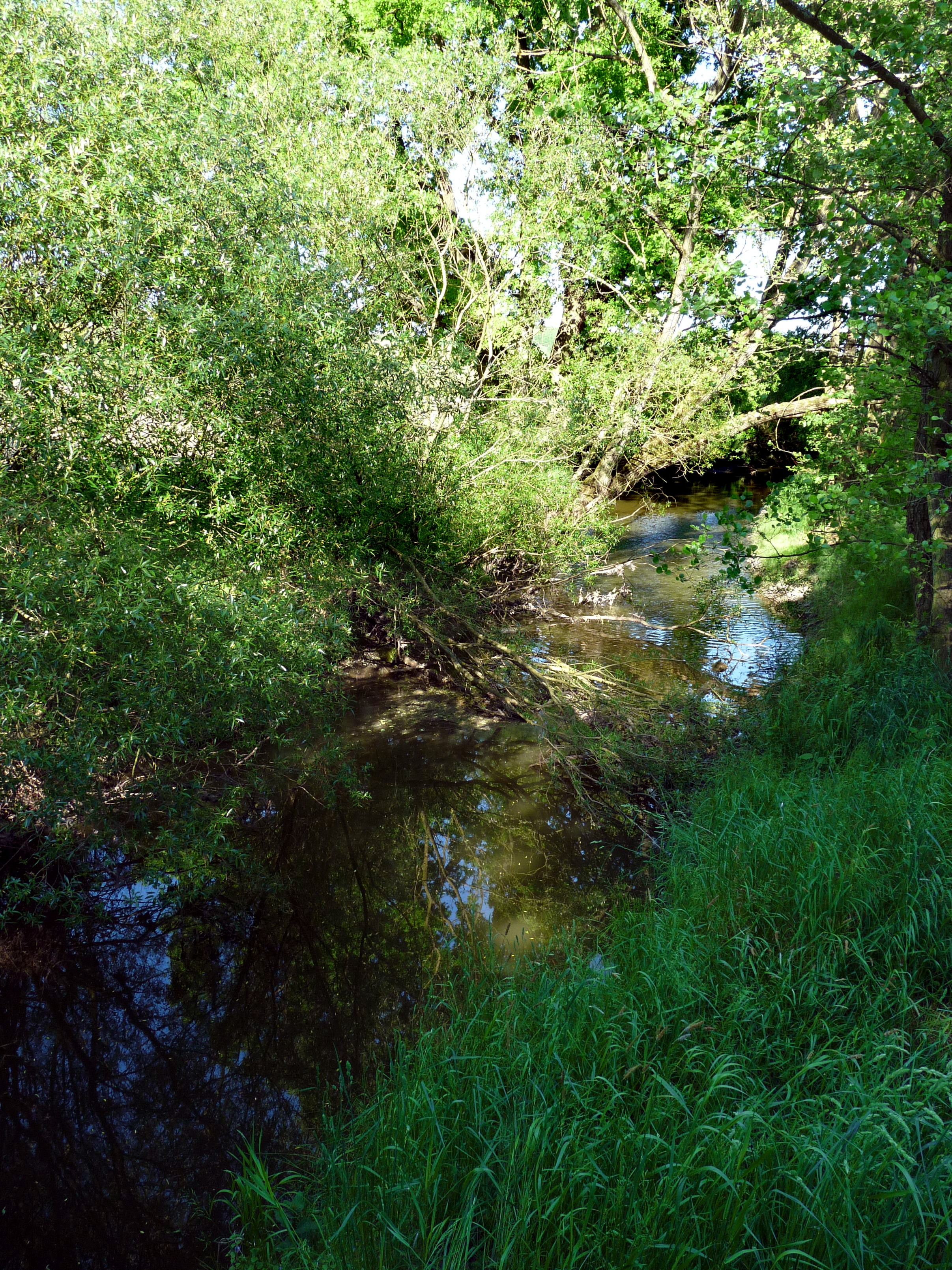 Bridge over the Bezdrevský Stream in the village of Lékařova Lhota, part of the municipality of Sedlec, České Budějovice District, South Bohemian Region, Czech Republic.